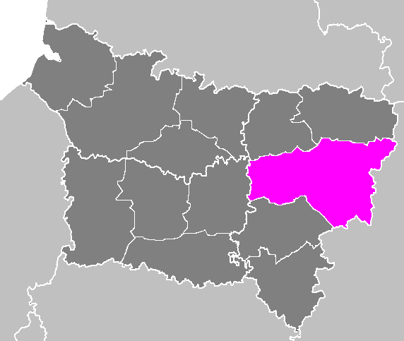 Maps of arrondissements and cantons of France: Arrondissement de Laon.PNG